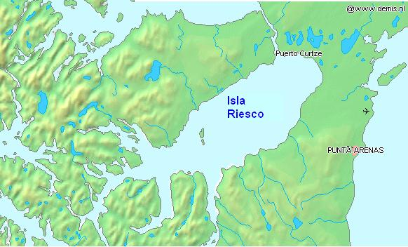 Riesco Island, west of Otway Sound, Chile